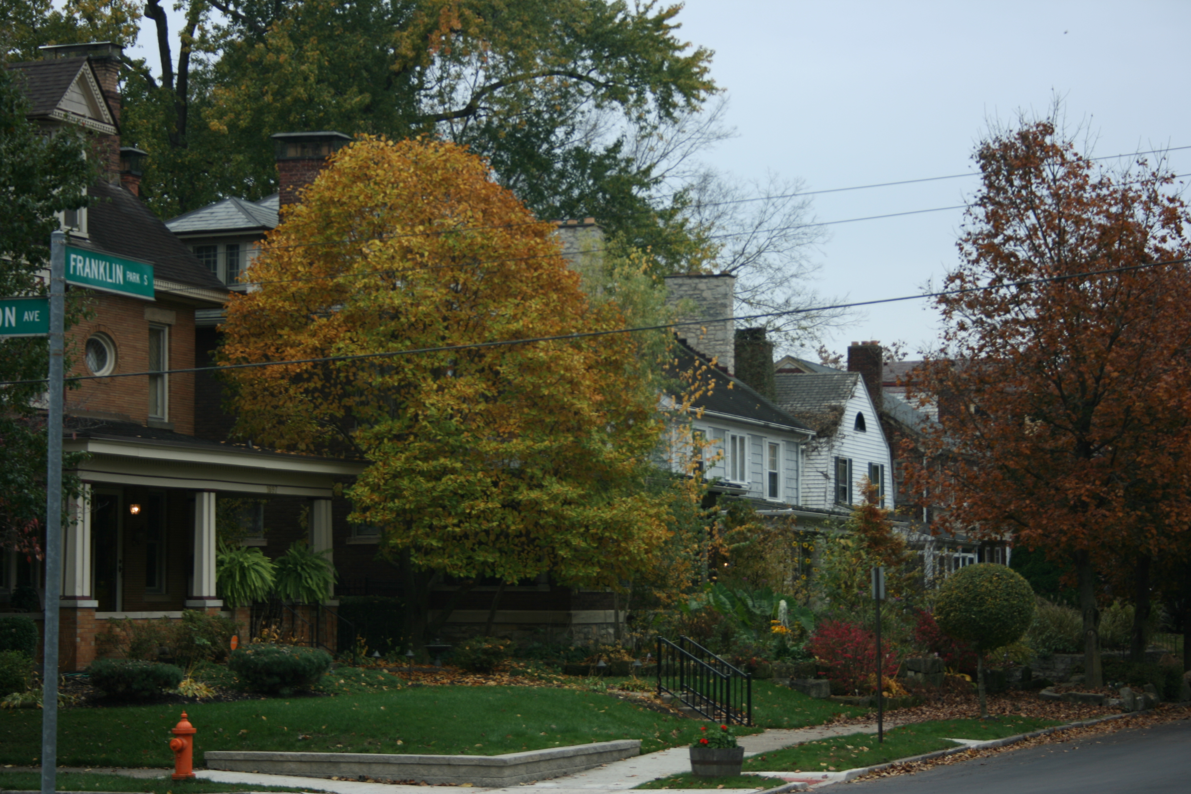 A view of homes on Franklin Park Ave South, one of the more exquisite streets in the neighborhood.